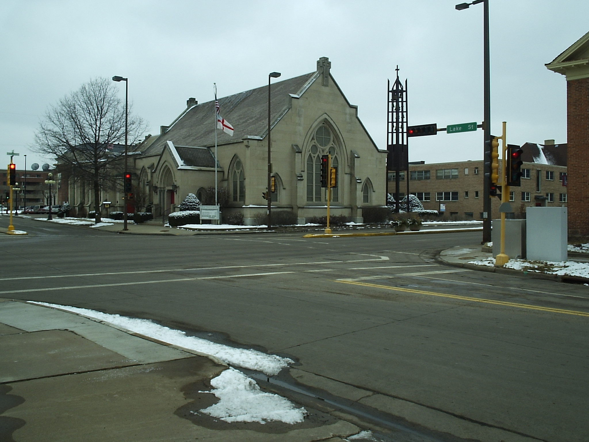 A pic of Christ Church Cathedral in Eau Claire from kittycorner across Lake and Farwell. Along the right hand side of the image is the corner of the Schlegelmilch-McDaniel House.